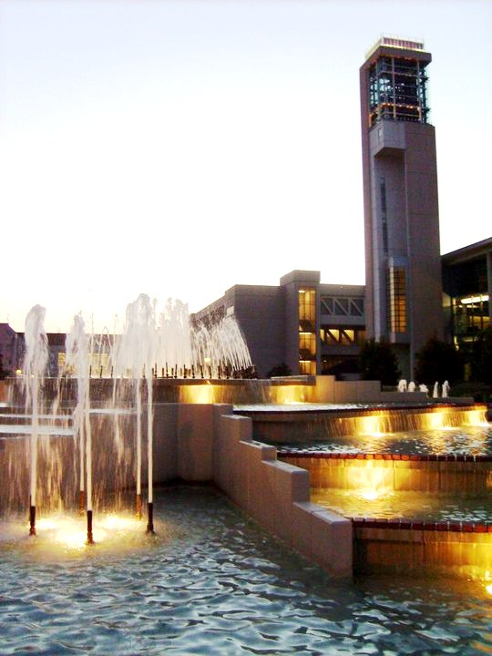 Jane A. Meyer Carillon at Missouri State University, Springfield, MO, USA